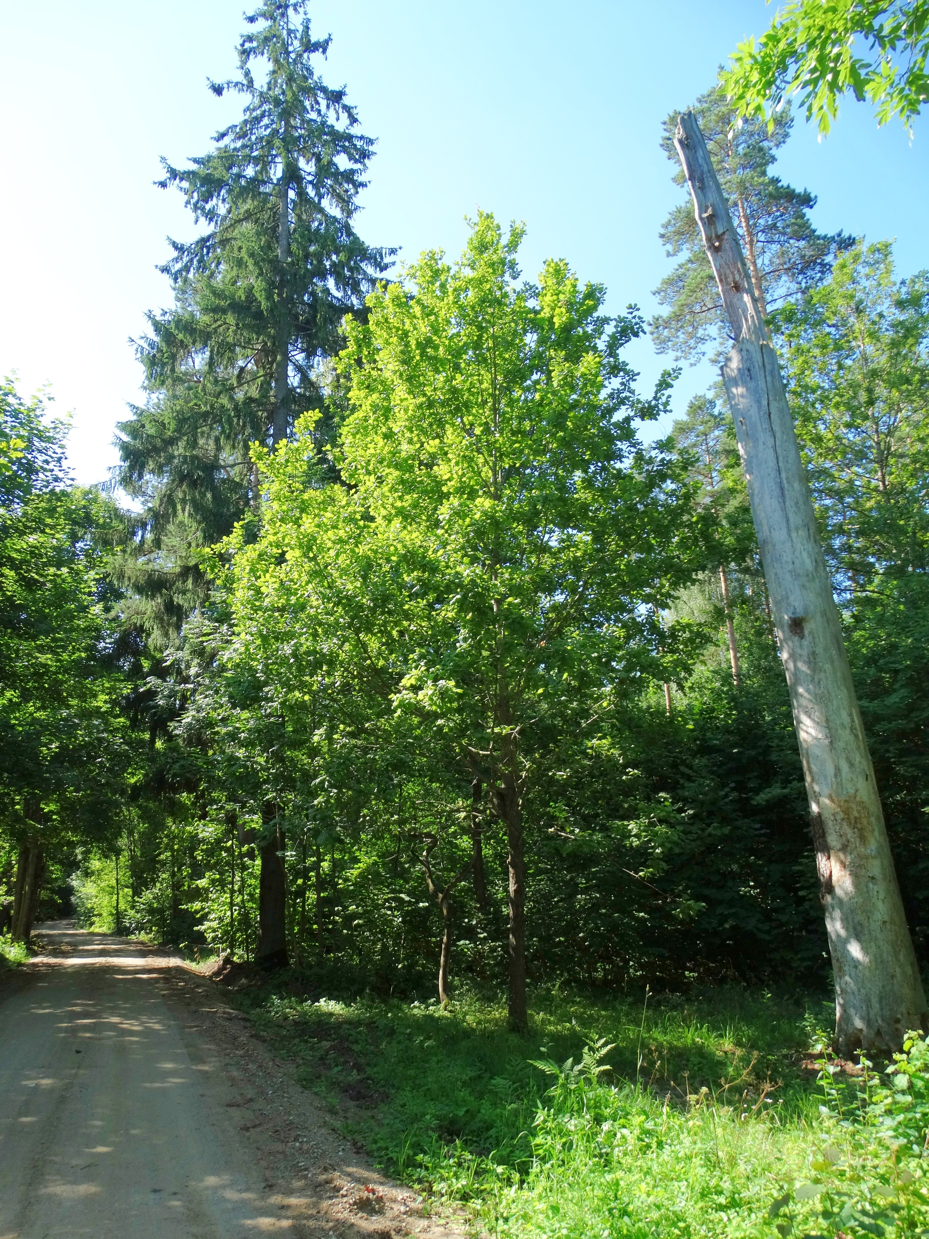 Liaudiškiai pine tree, Radviliškis District, Lithuania